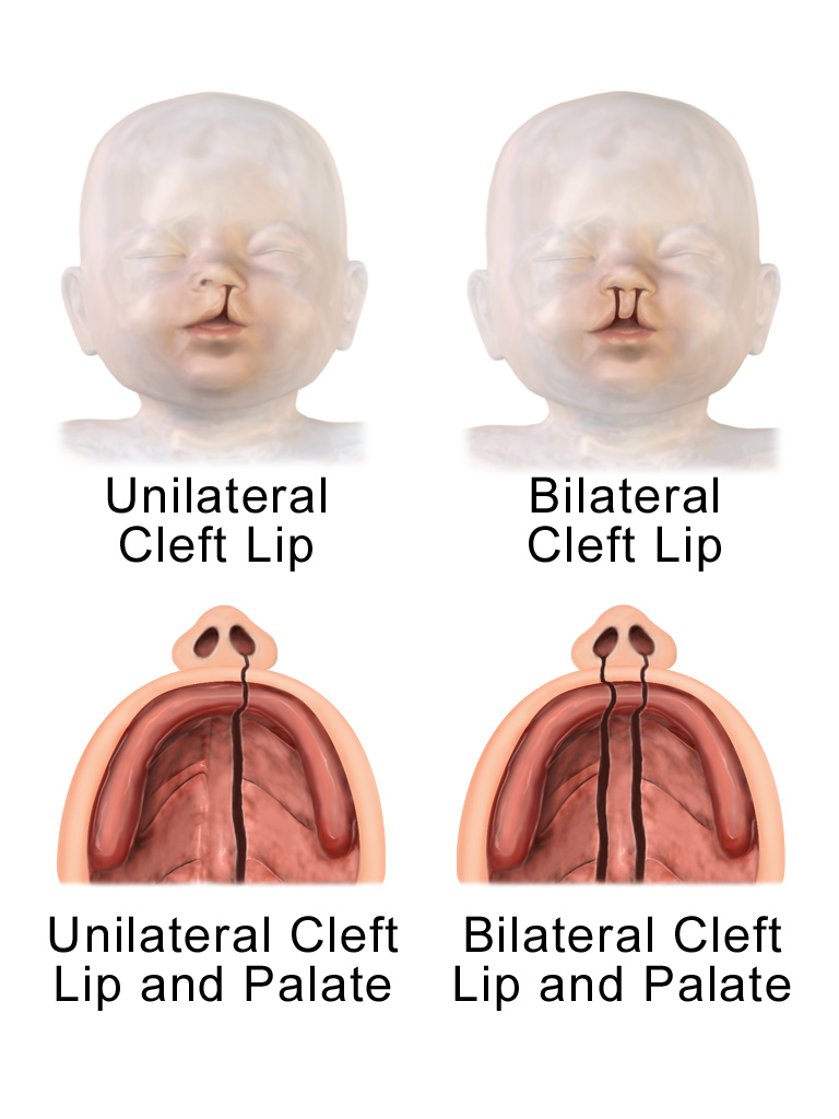 An illustration showing both a unilateral & bilateral cleft lip & palate